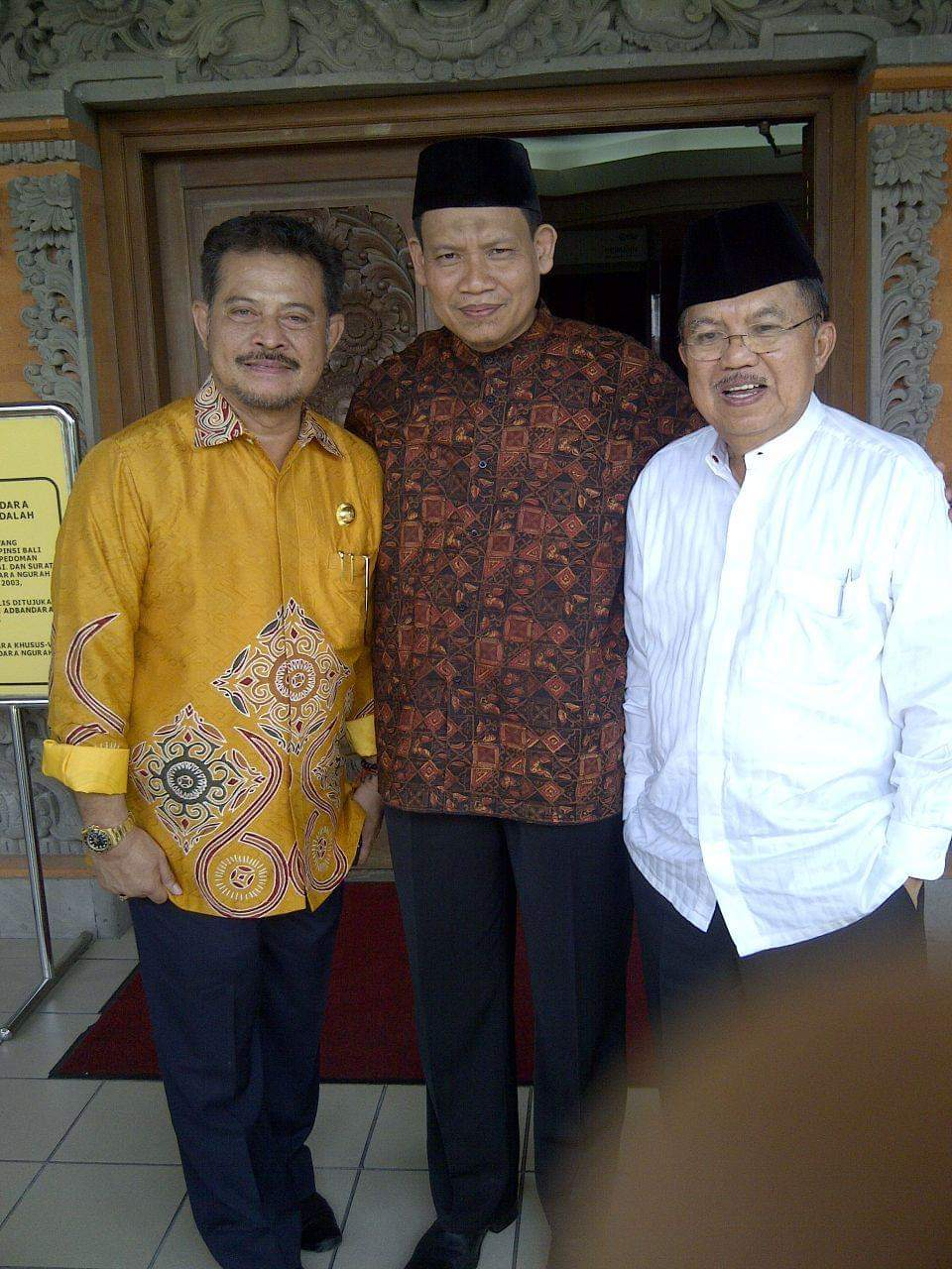 Bambang Santoso bersama JK dan Gubernur Sulsel Syahrul Yasin Limpo